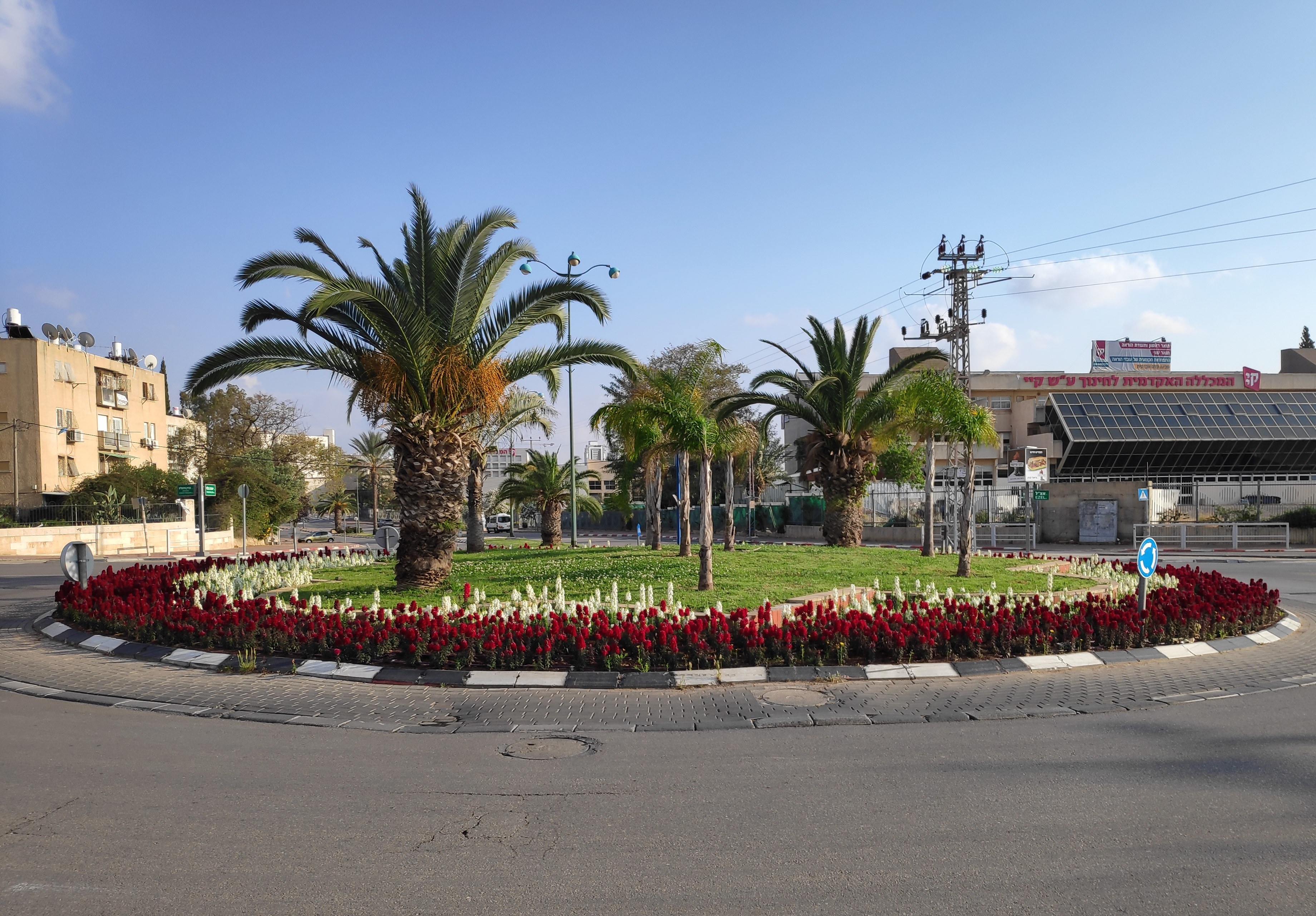 Eli Friedman Square, on the right, Kaye Academic College of Education, which united with The state seminary for physical education teachers in Be'er Sheva, that she founded